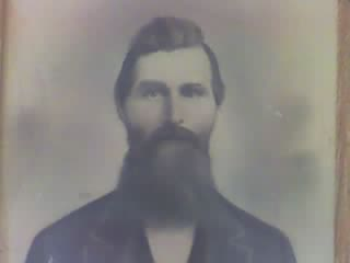 Larger image of Wilson Tigard's charcoal portrait. He's my great-great-great-grandfather and we have the portrait at our house.